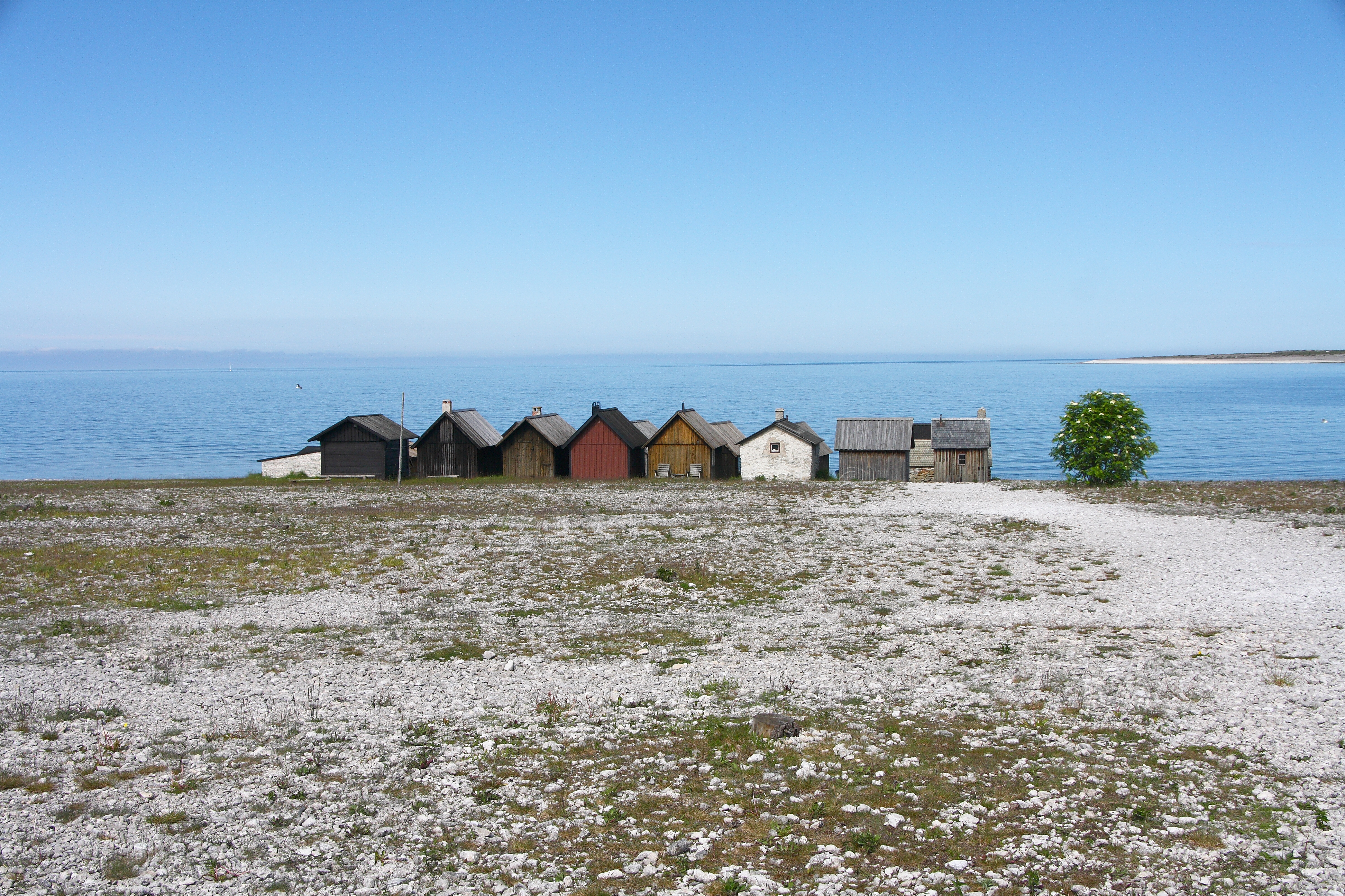 Fishing village Helgumannen near nature reserve Langhammars at Fårö (Gotland).